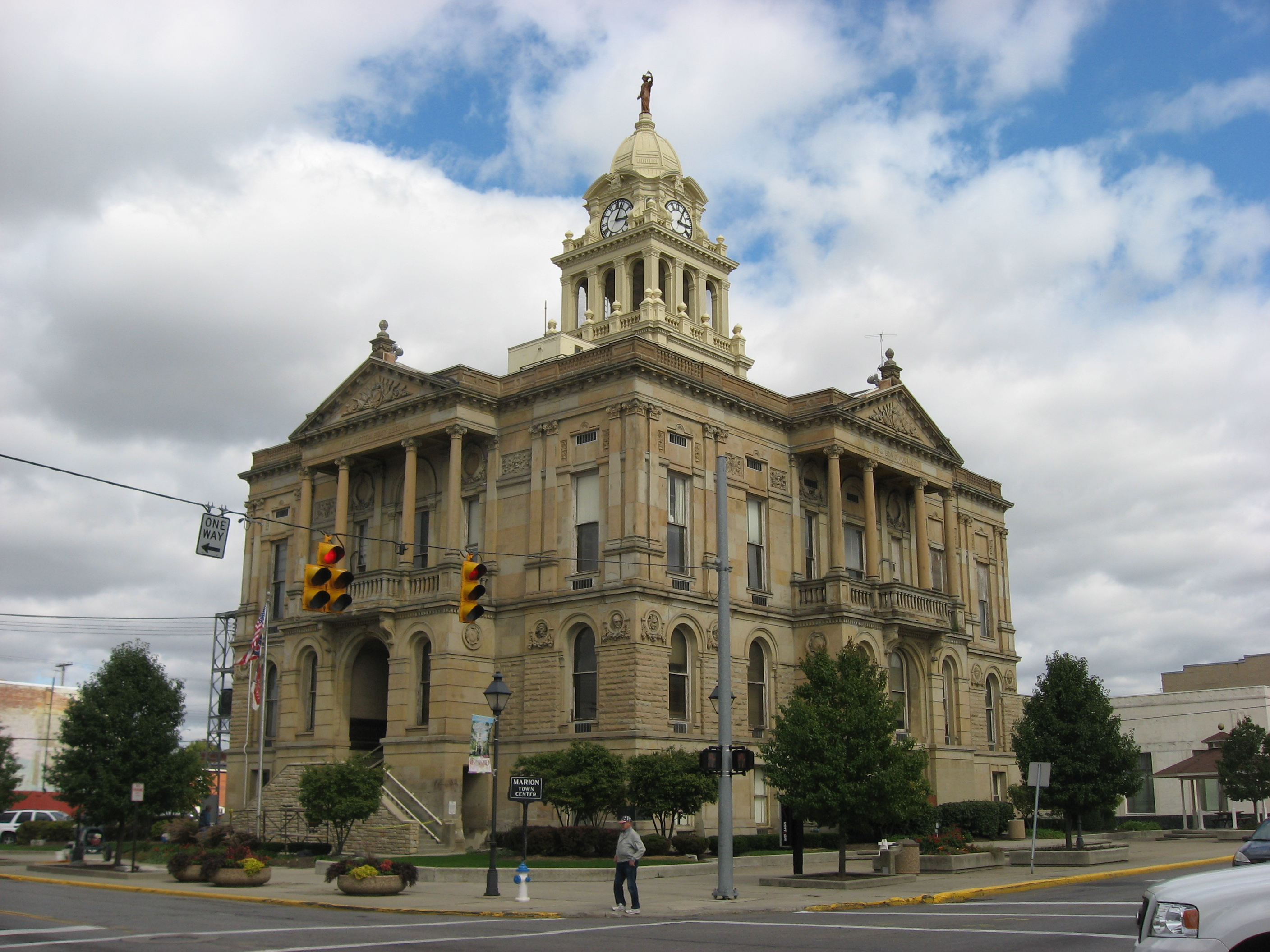 Southern and western sides of the Marion County Courthouse, located at the intersection of Main and Center Streets (State Routes 4/423 and 95/309 respectively) in downtown Marion, Ohio, United States. Built in 1884, the courthouse is listed on the National Register of Historic Places.